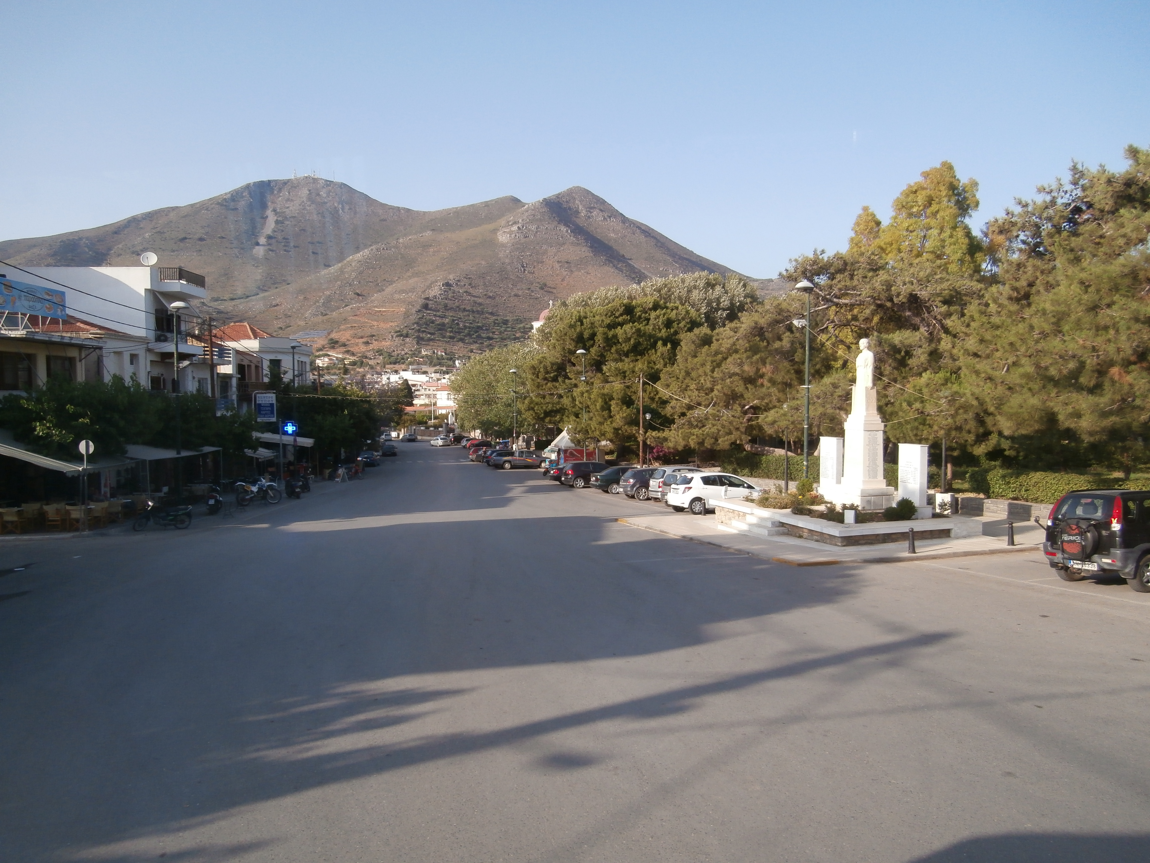 The central road of Neapoli, Lasithi